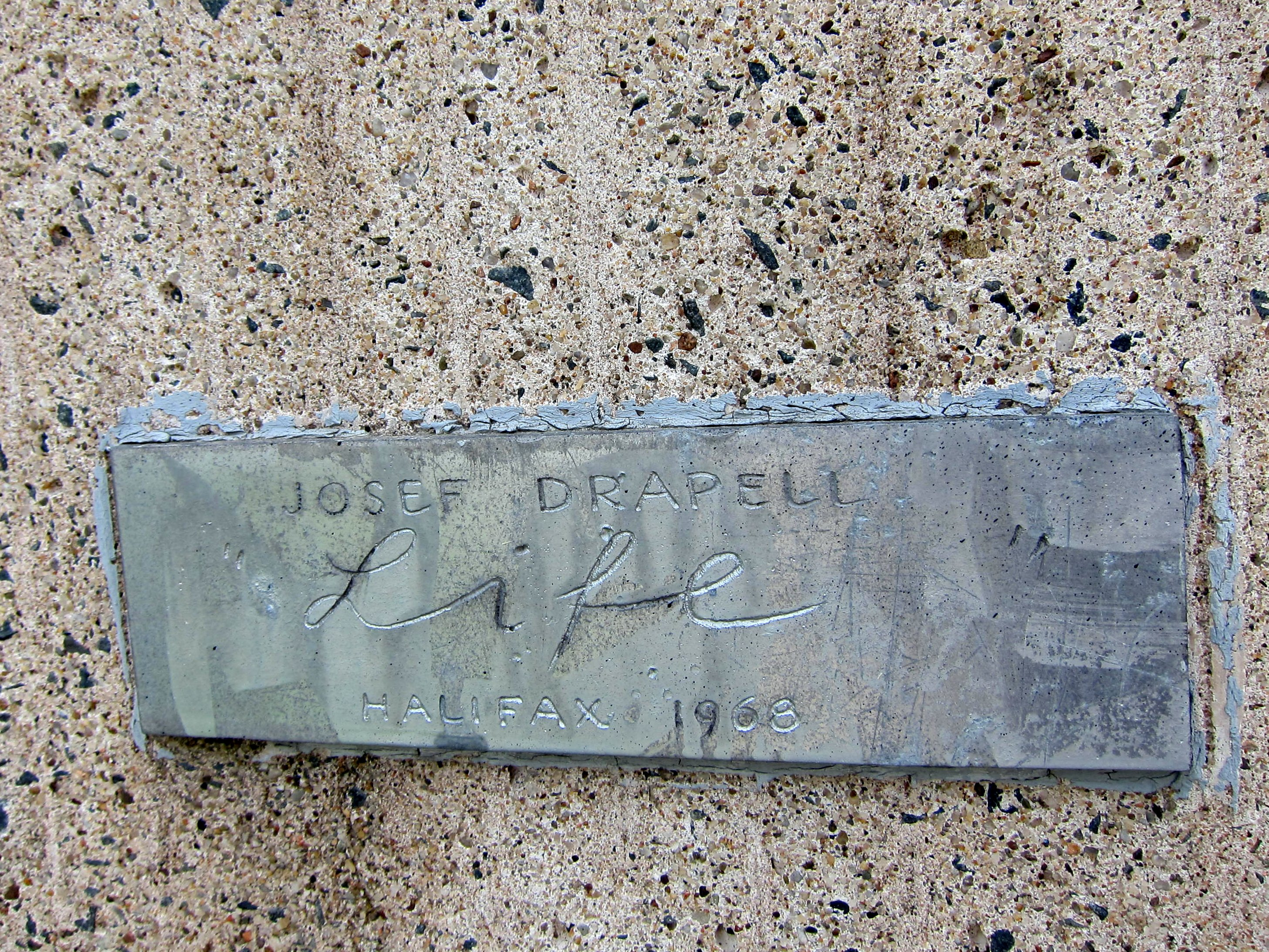 The plaque on the "Life" sculpture on Quinpool Road in Halifax, Nova Scotia. It reads: "Josef Drapell / Life / Halifax 1968".